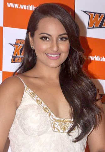 Sonakshi Sinha at the press meet of 'World Kabaddi League'